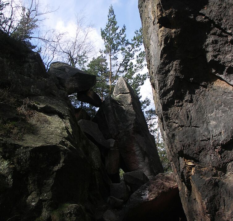 Mausefall, Saxony, Germany